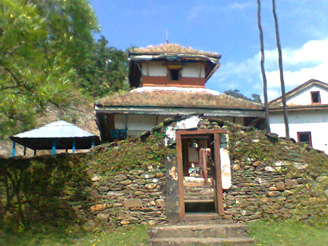 Siddheshwar Mahadev (Dungeshwar)